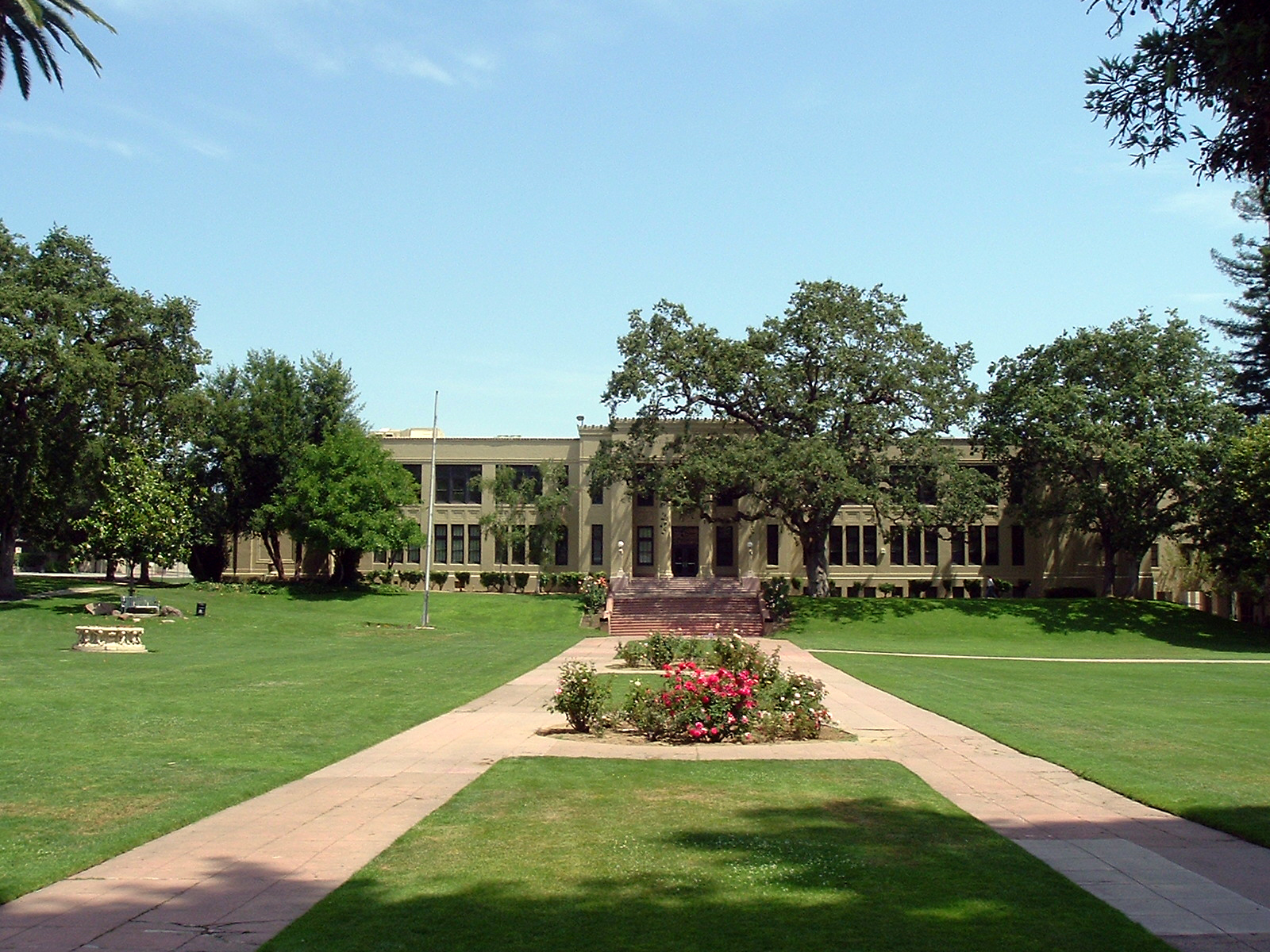 Los Gatos High School Grounds. Los Gatos, California.